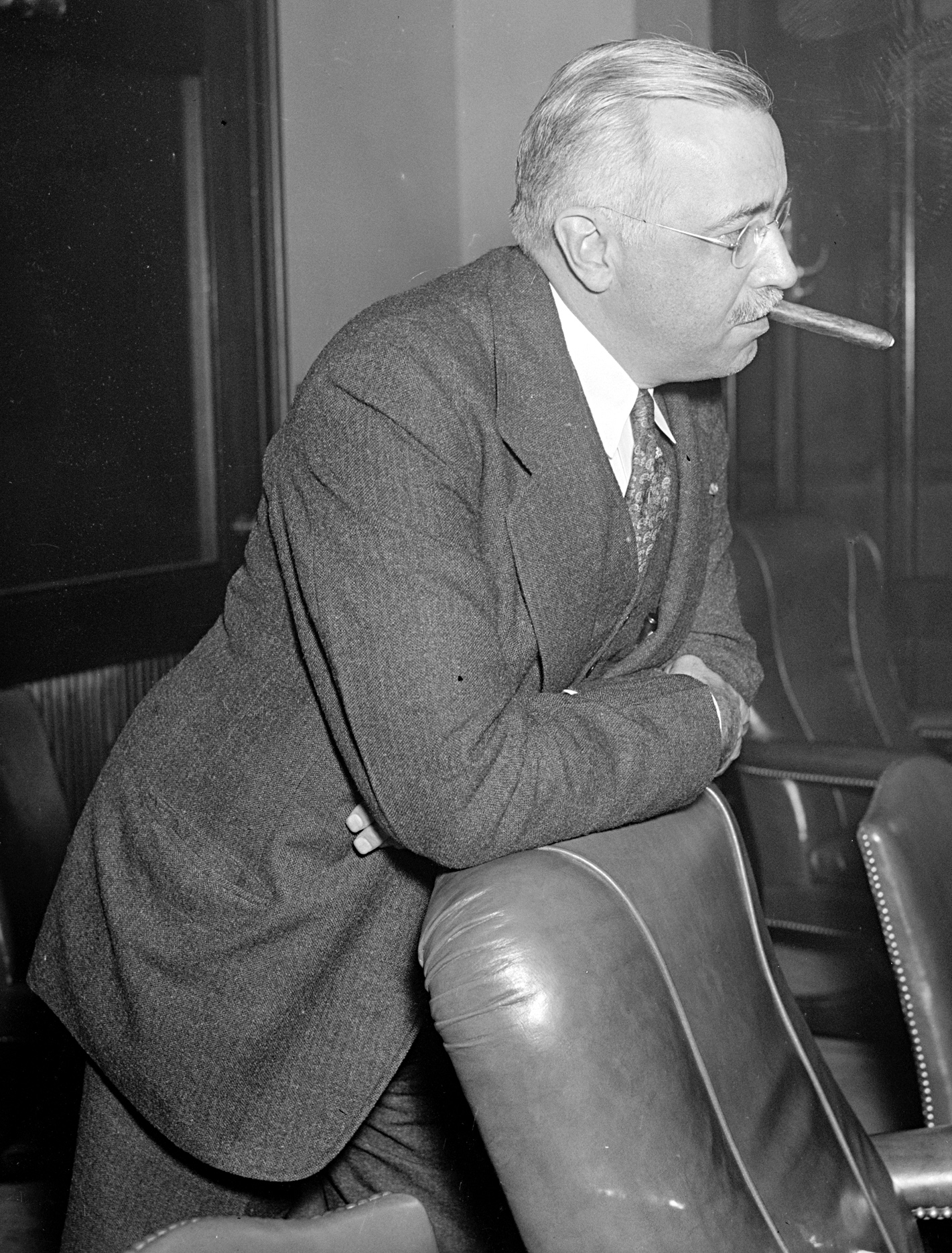 Norman S. Case, Governor of Rhode Island